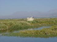 water tank for detection